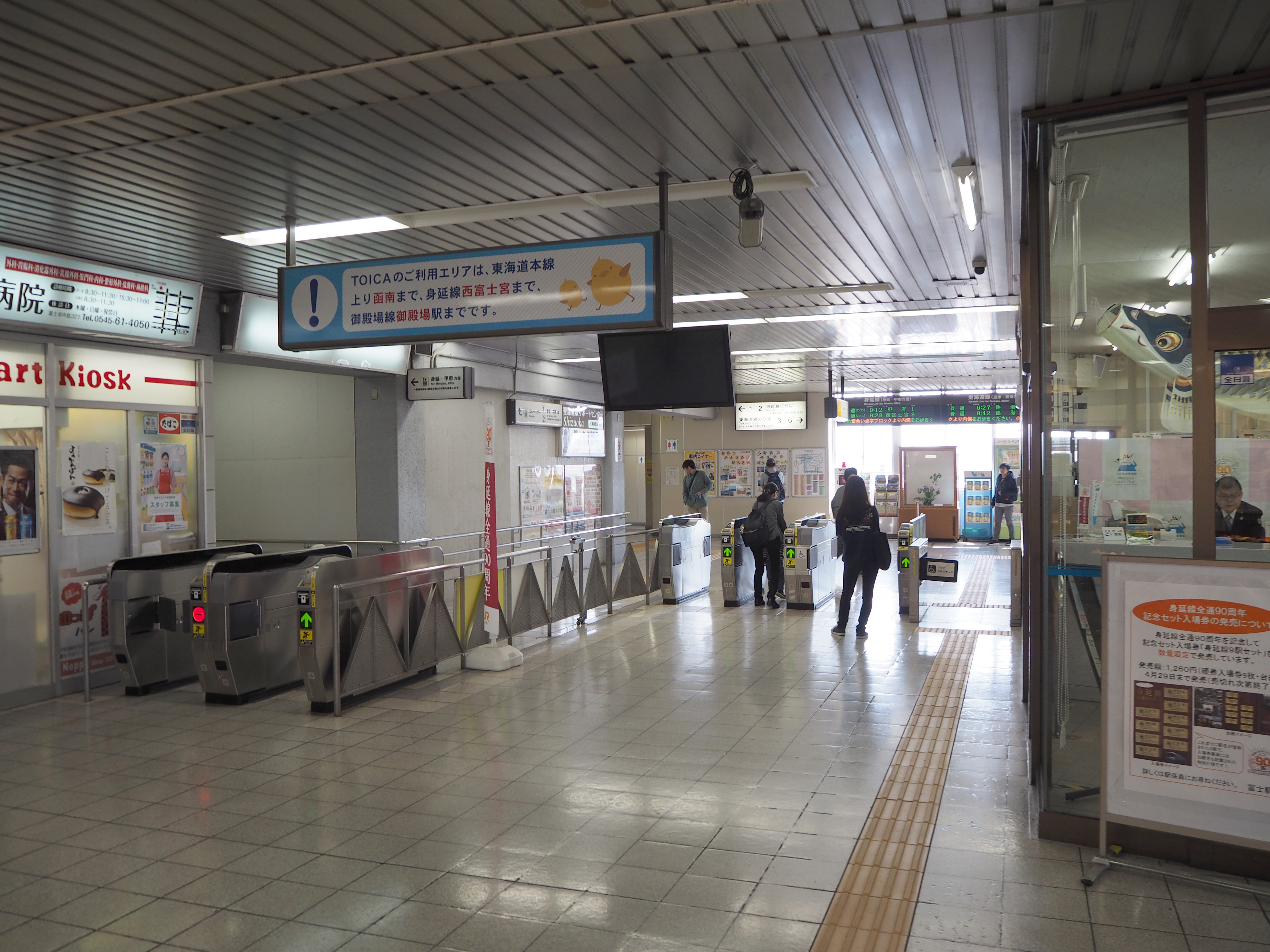 Ticket barriers of Fuji Station